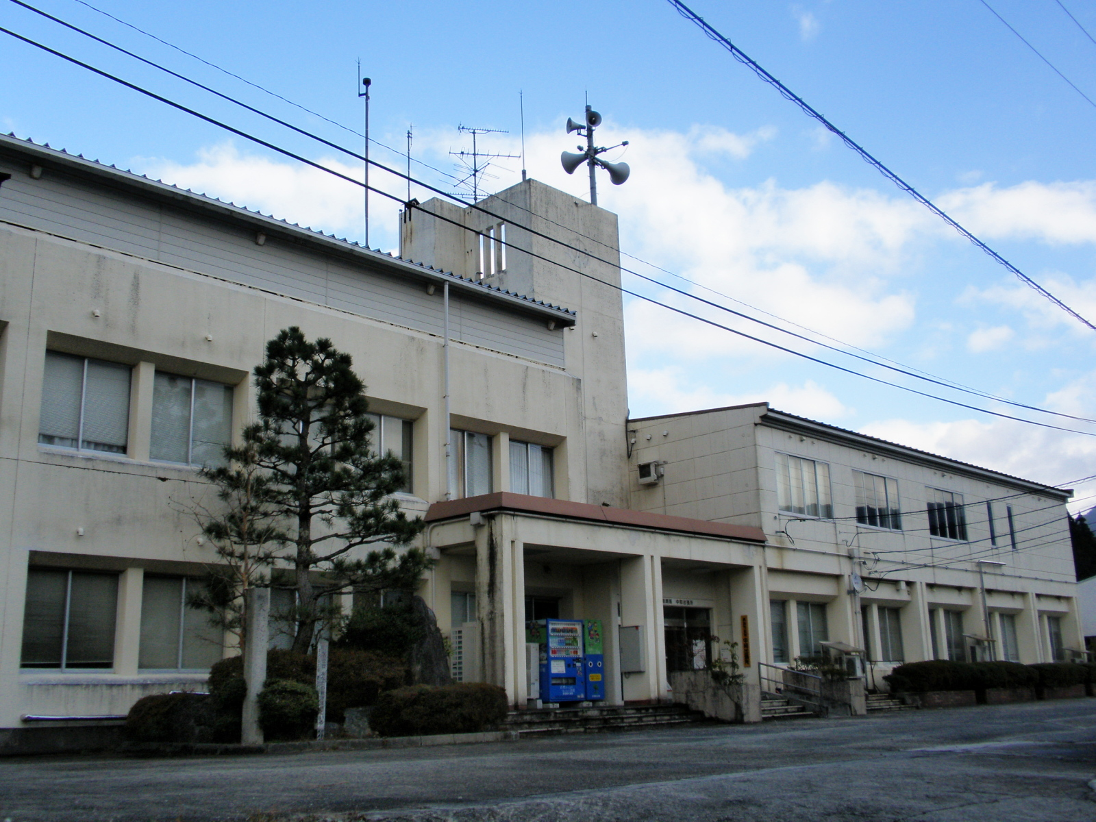 Maniwa city office Hiruzen regional promotion bureau Chūka branch Former Chūka village office (1975.12 - 2005.3.30)